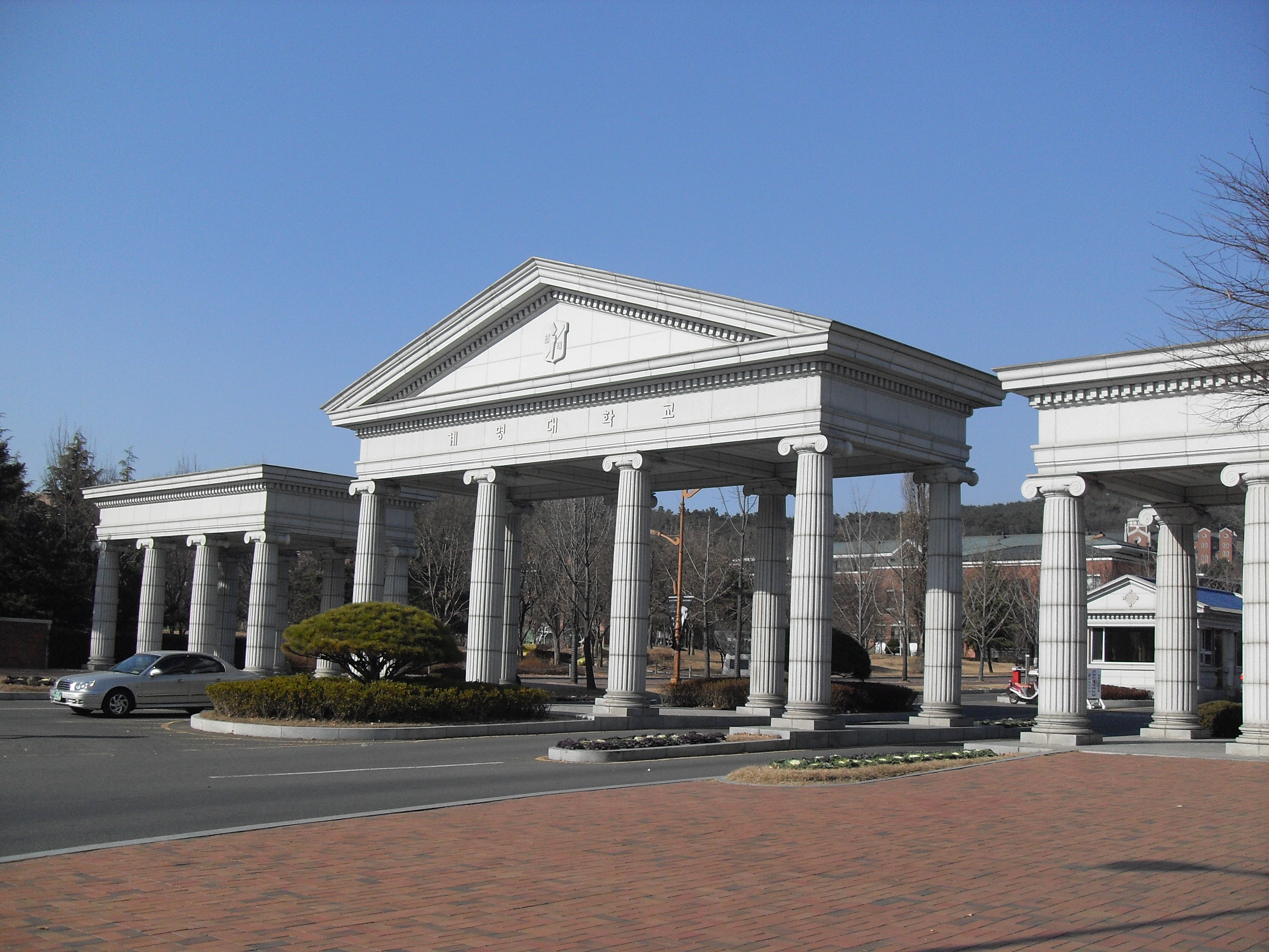 The main entrance of Kiemyung University, Daegu, South Korea